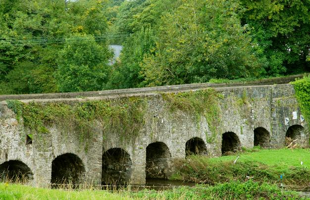 Wolfenden's Bridge, Lambeg An early 19th century bridge, carrying the road from Lambeg to Drumbeg across the Lagan. It replaced a ford. The Wolfendens were a linen family originally from Holland or what is now Belgium. The view is towards Drumbeg.